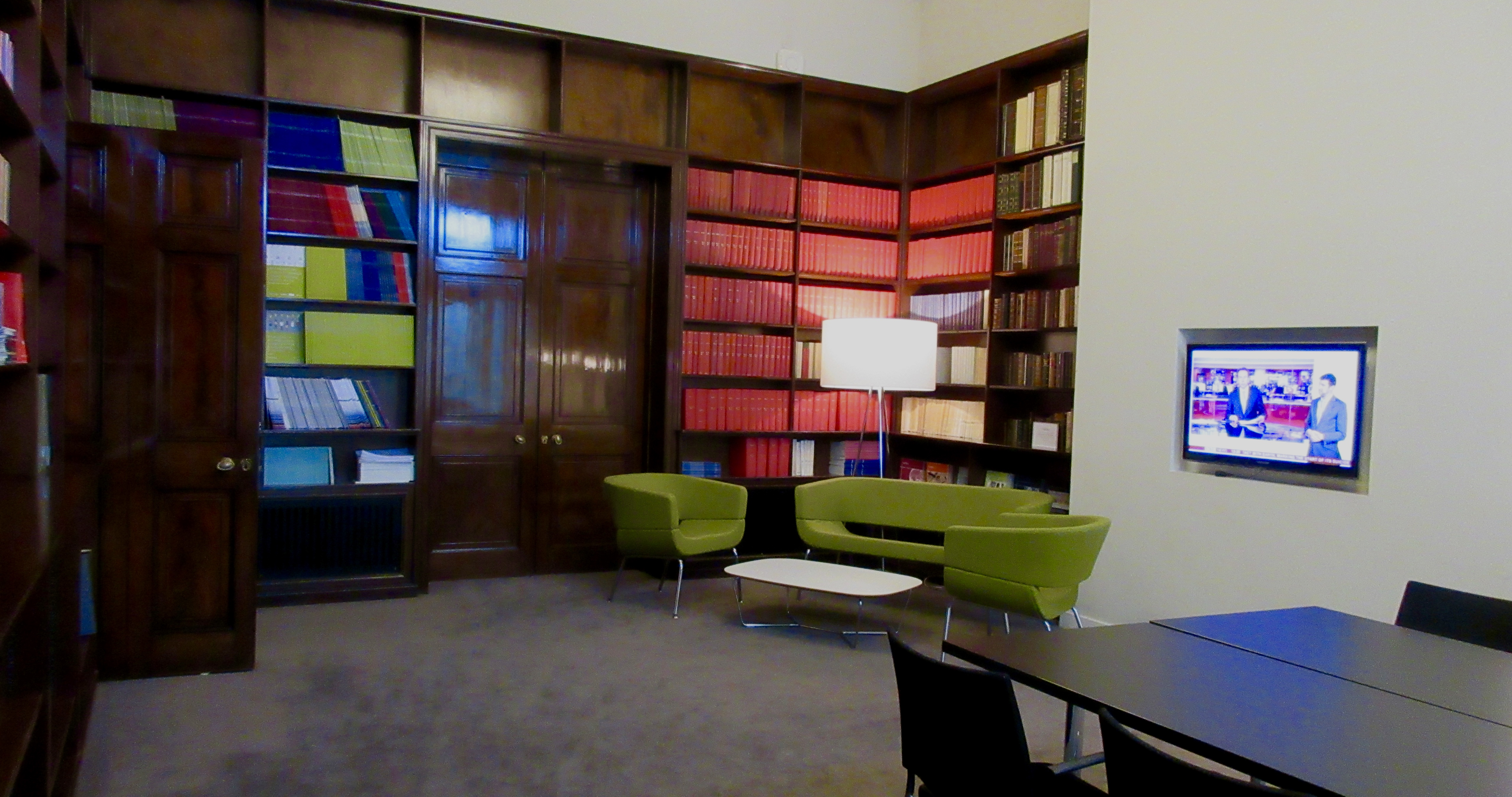 Inside of Fellows Room, Academy of Medical Sciences, 41 Portland Place, London